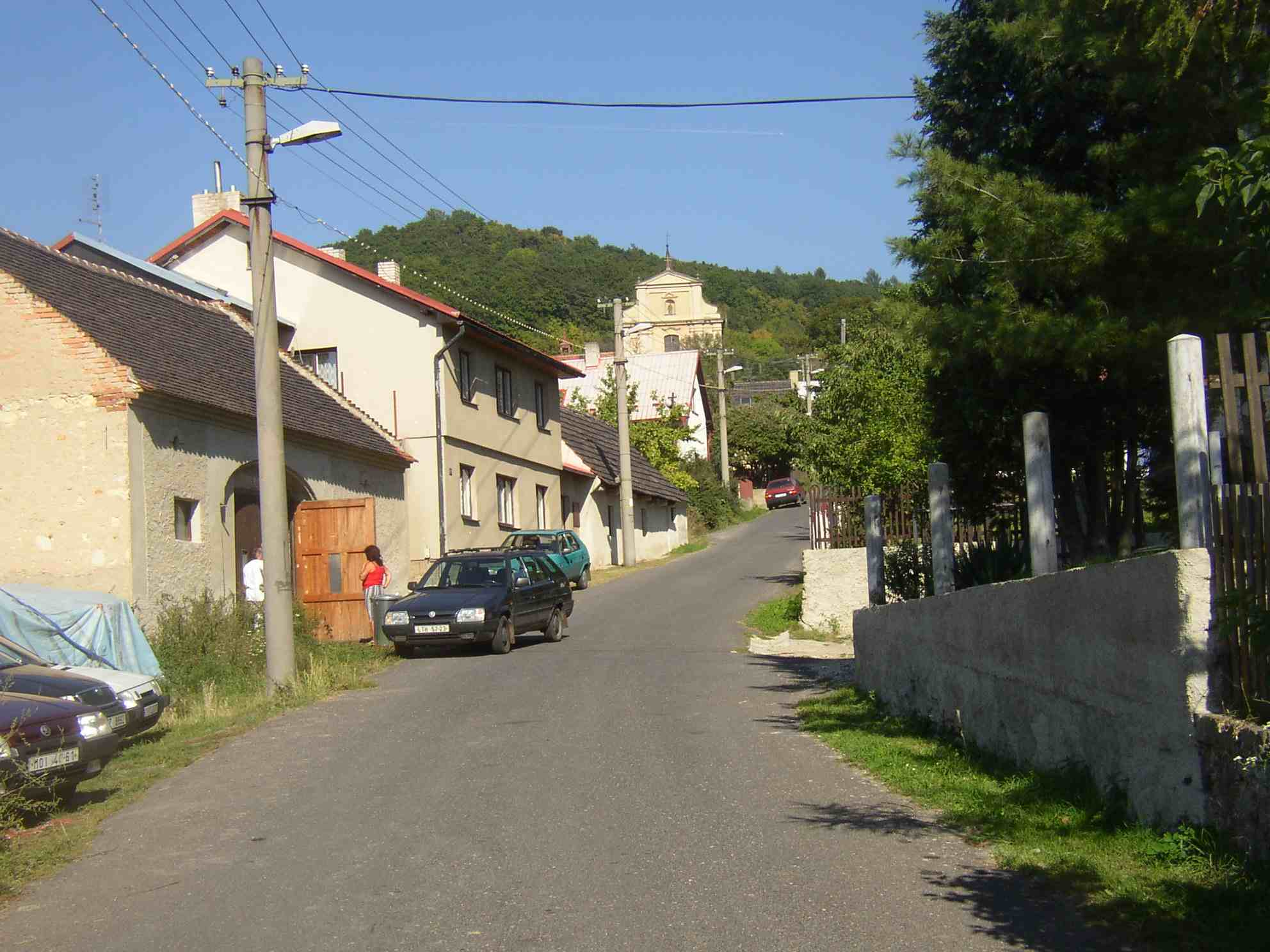 Village of Sutom (part of Třebenice). Sutomský vrch (Sutom Hill, 505 m) in the background.